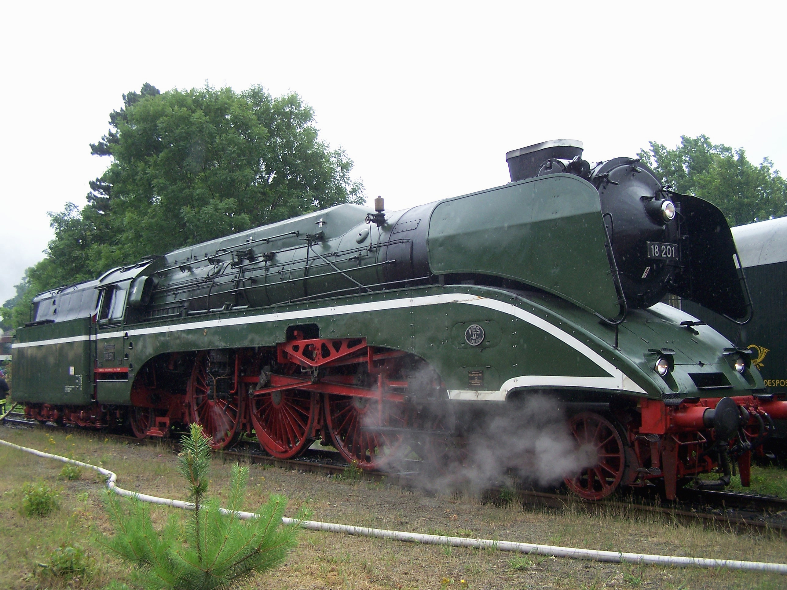 fastest operating steam locomotive of the world 18201 in Hersbruck, Germany, June 30th, 2007